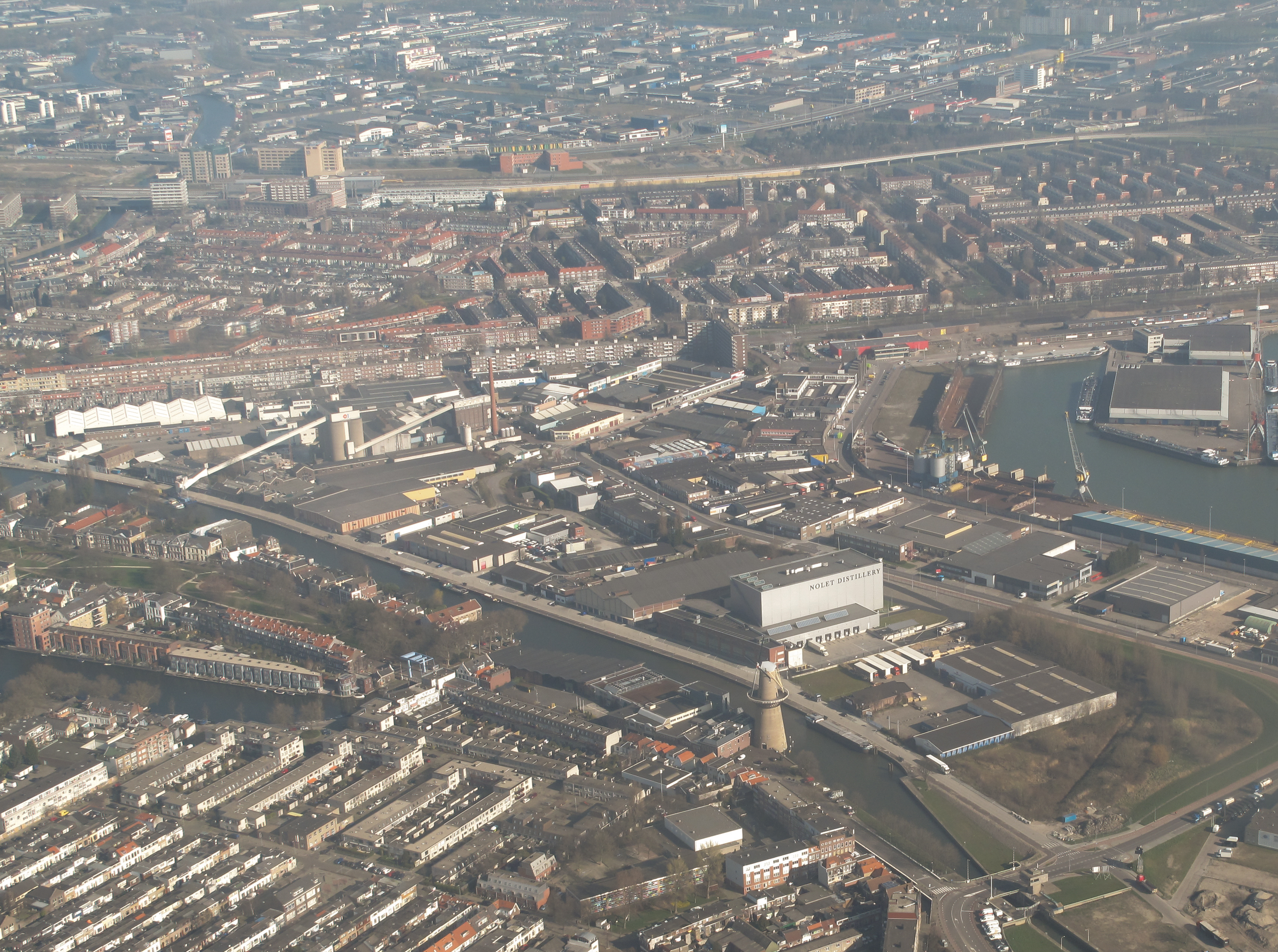 Schiedam-zuid en Merwehaven